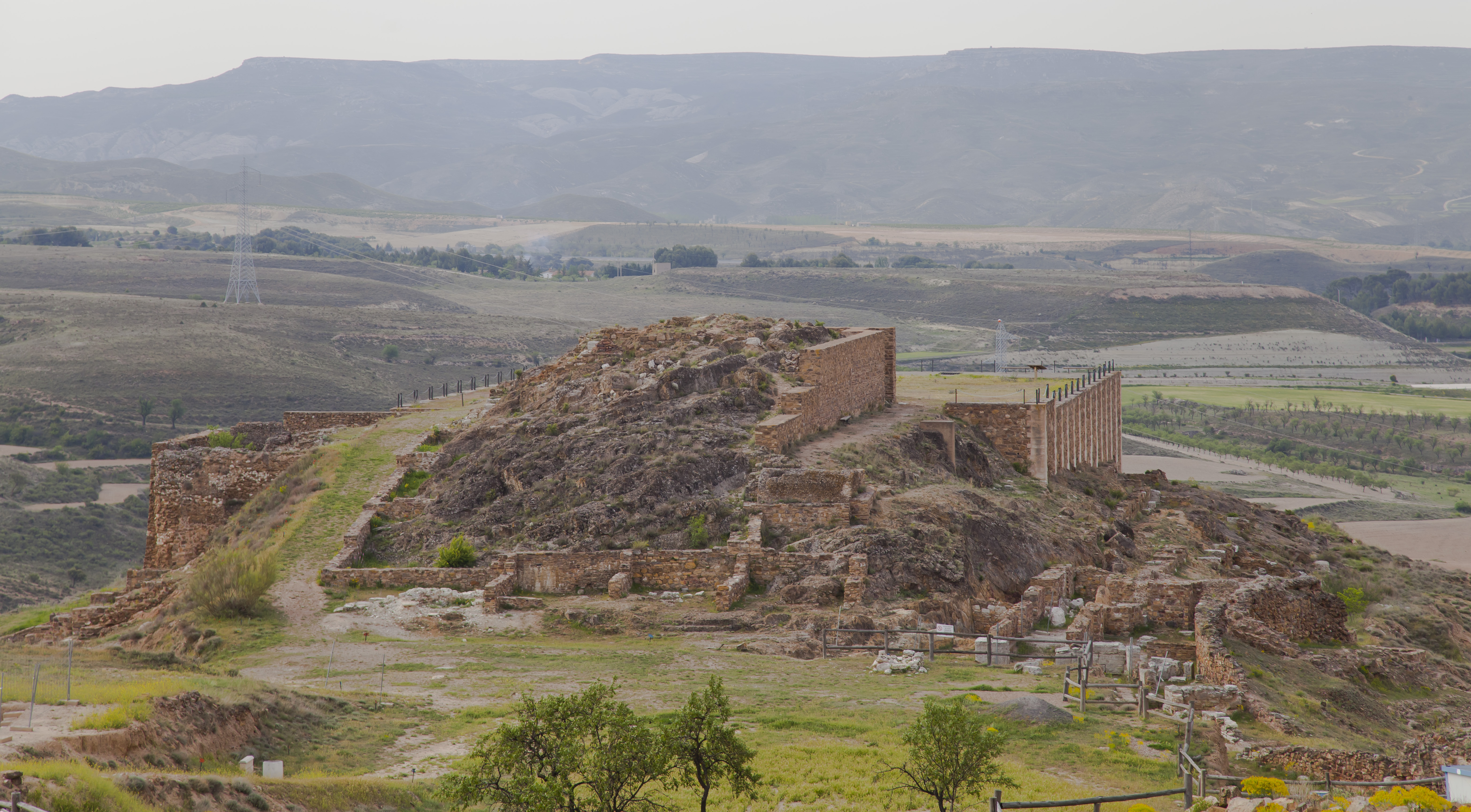 Ruins of the ancient roman city of Bilbilis, Calatayud, Spain